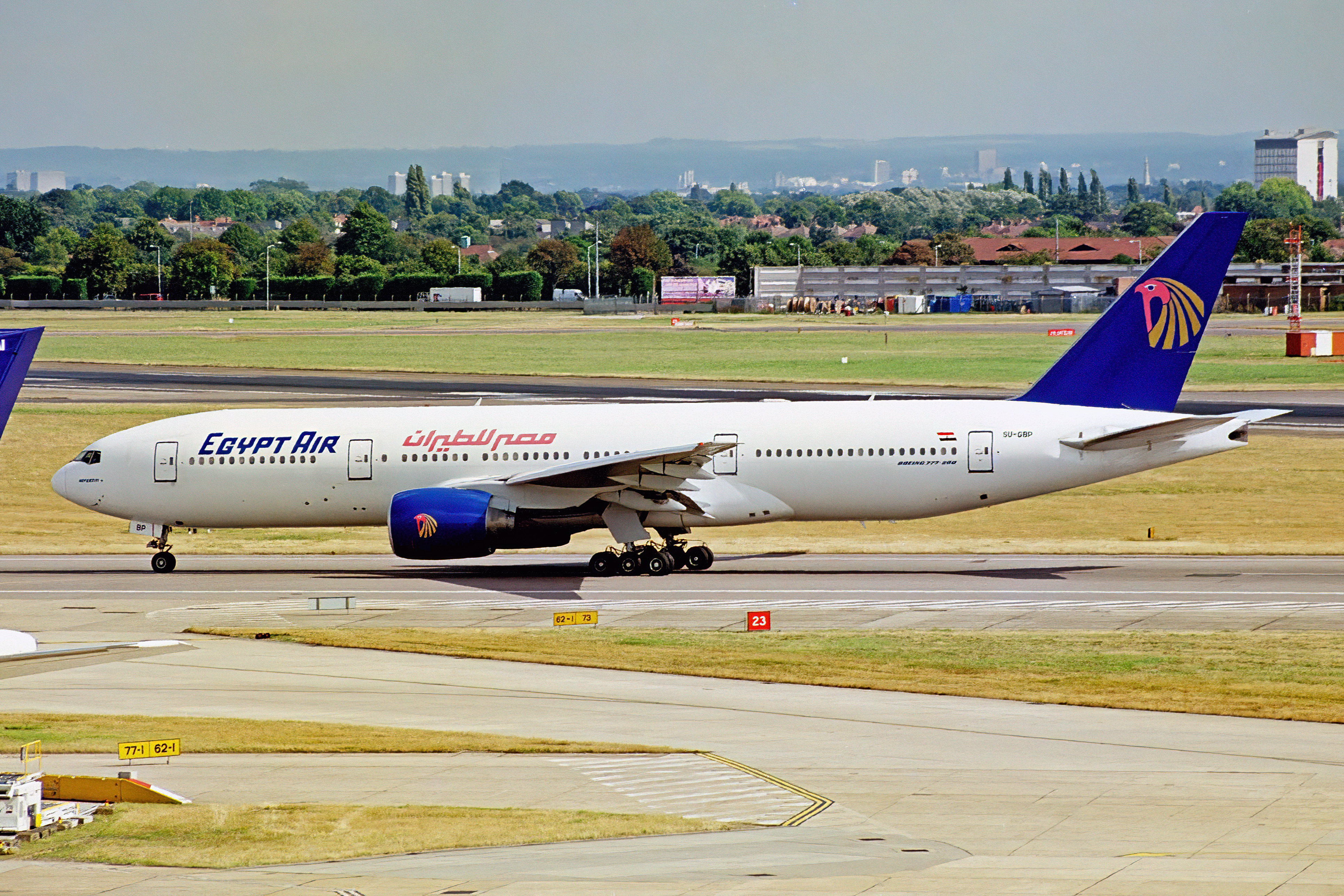 Damaged beyond repair in a fire in 2011 with no fatalities.